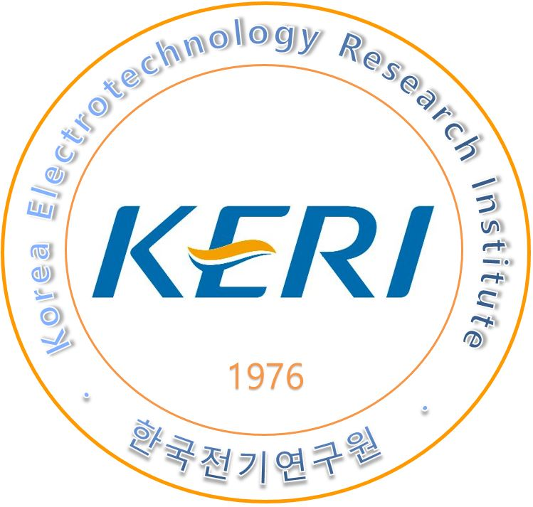 KERI (Korea Electrotechnology Research Institute) emblem